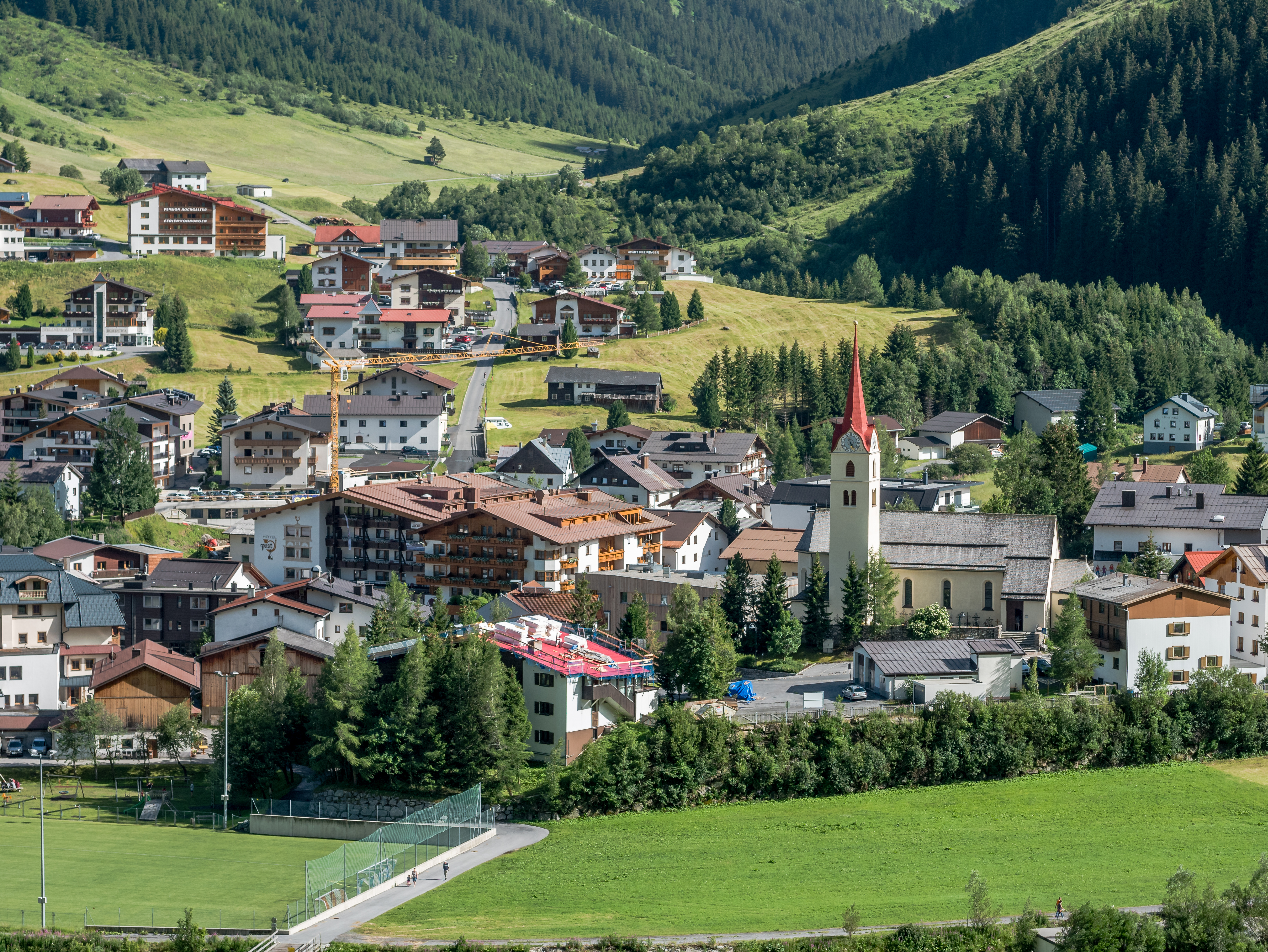 View over the centre of Galtür. Paznaun, Tyrol, Austria